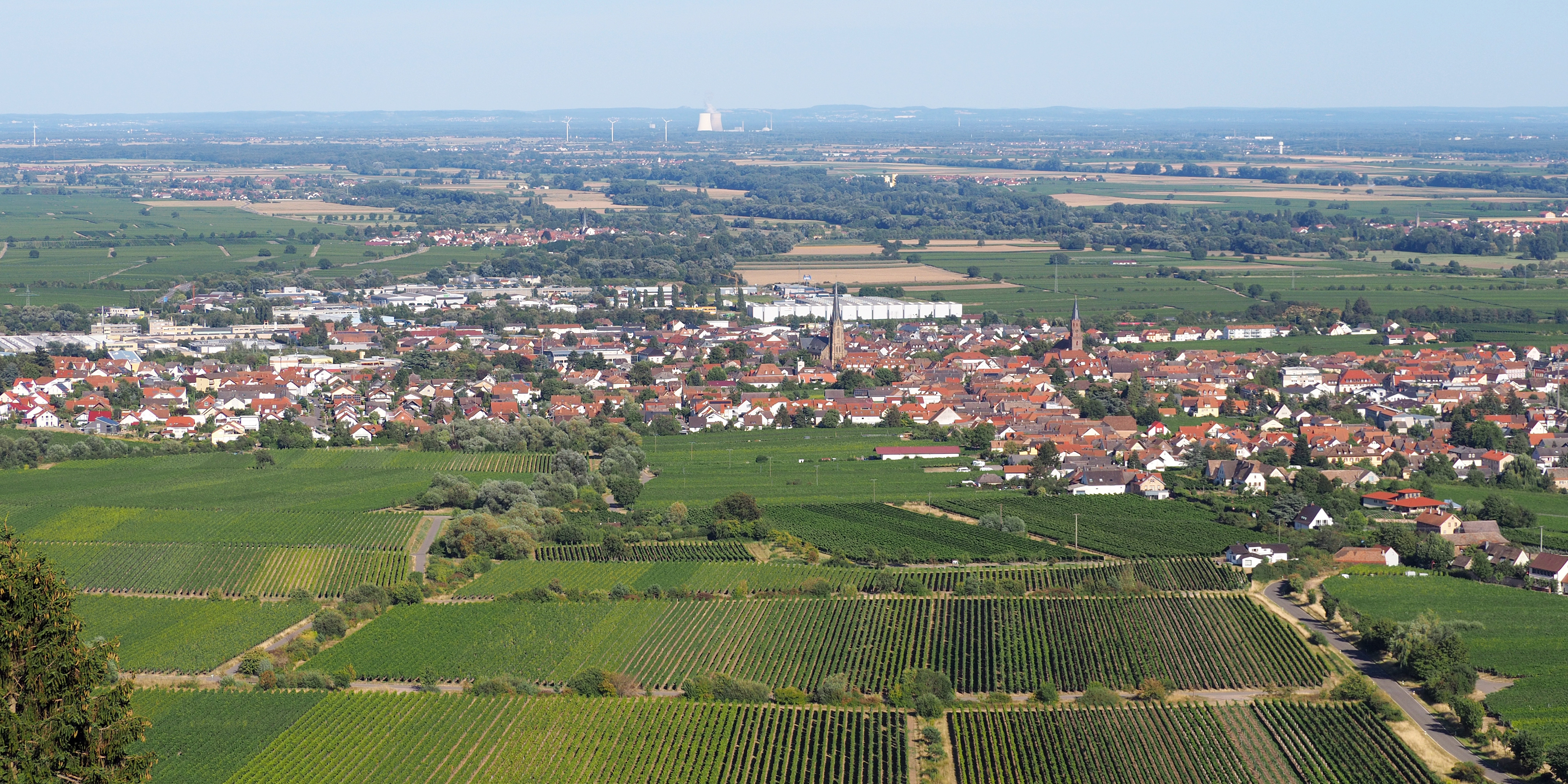 Edenkoben